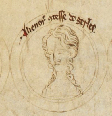 A depiction of princess Eleanor of Woodstock on the family tree made in the 14th century